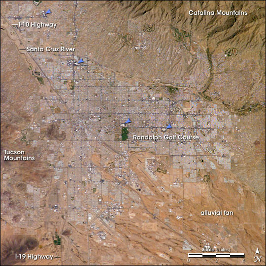 Astronaut photo of Tucson, Arizona. Sentinel Peak, directly west of Randolph Park, at west perimeter of Tucson, east perimeter of the Tucson Mountains.